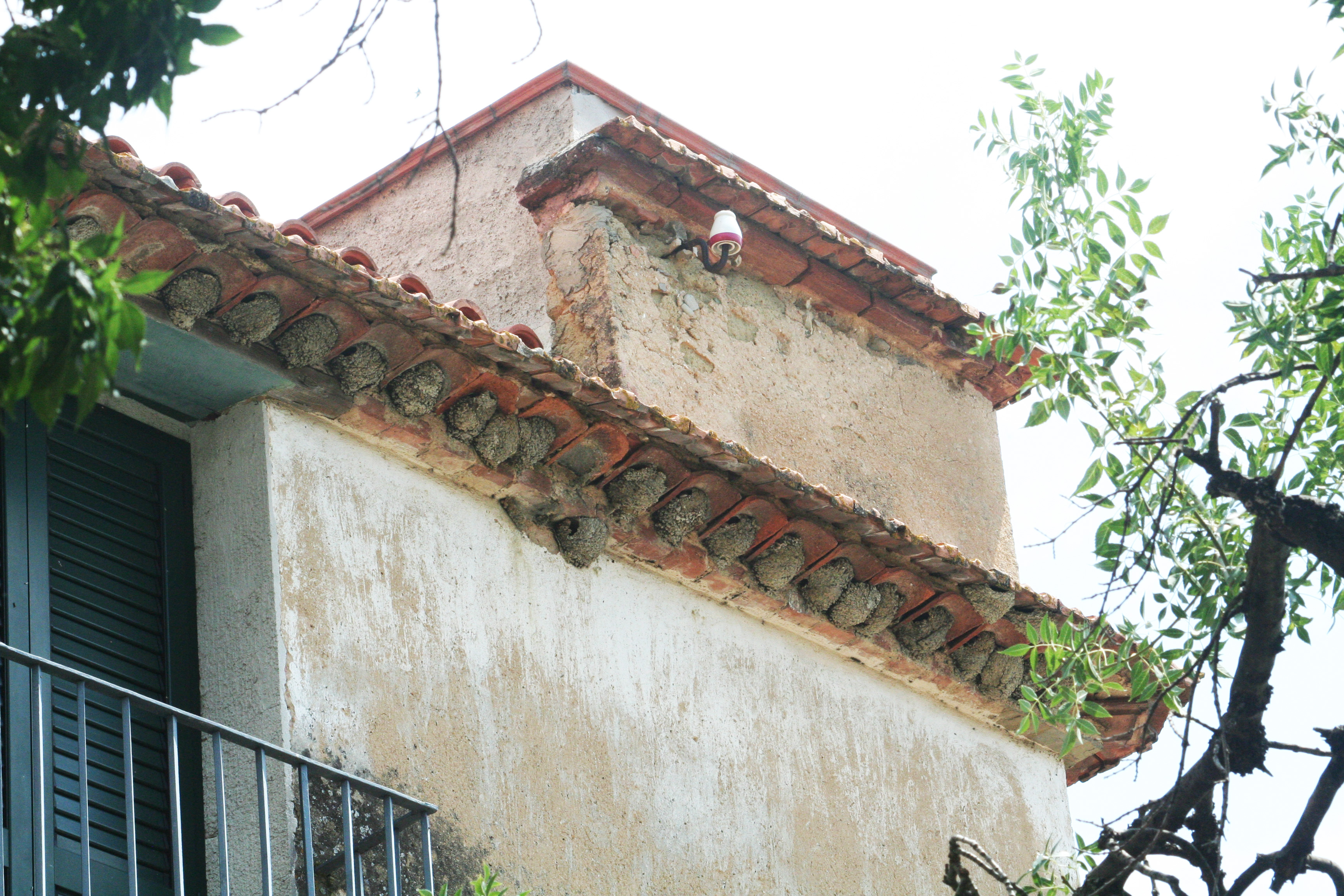 Swallow's nests at Pisciotta, Italy